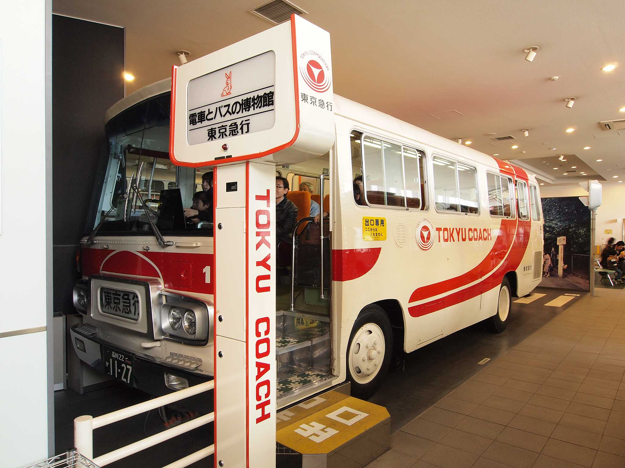 The 1st fleet of Tokyu Coach, operated at between Jiyugaoka and Komazawa, Tokyo. Model: Mitsubishi Fuso B623B Body Manufacturer: Kureha Body License plate: TKS22KA1127 Tokyu Transportation Museum archive